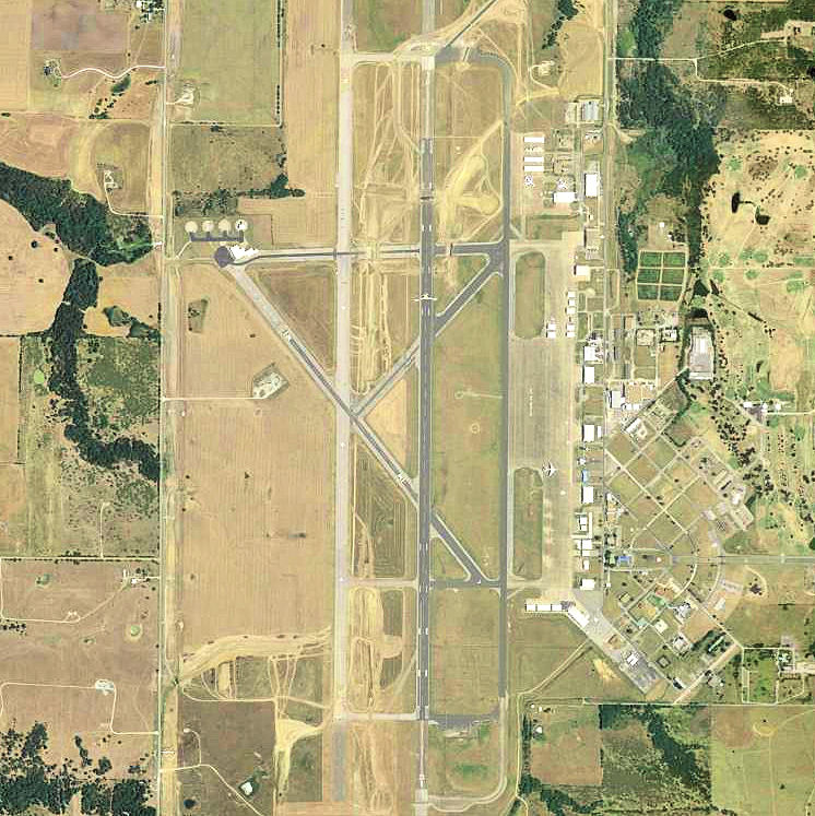 USGS digital orthophoto of North Texas Regional Airport in Texas